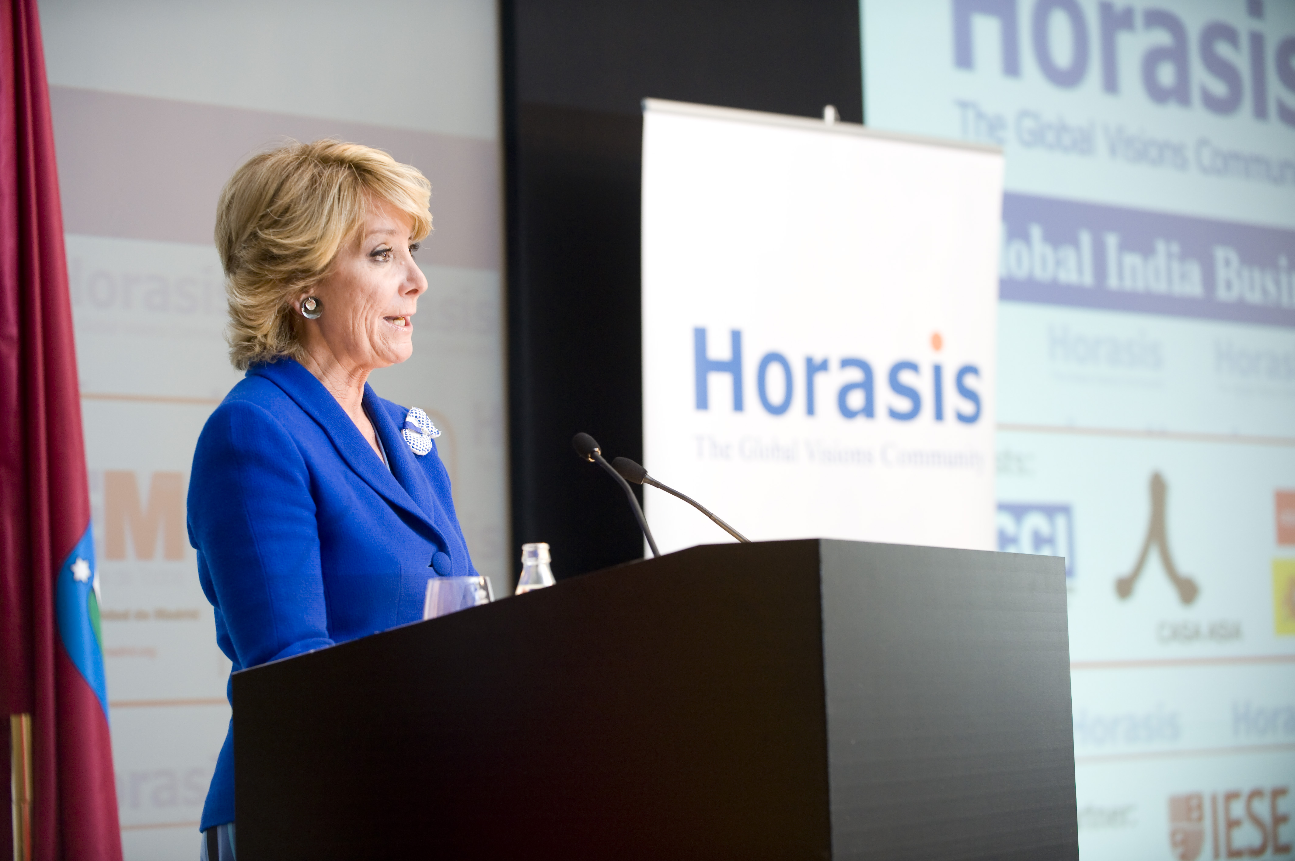 Esperanza Aguirre, President, Community of Madrid, welcoming participants at the 2010 Horasis Global India Business Meeting